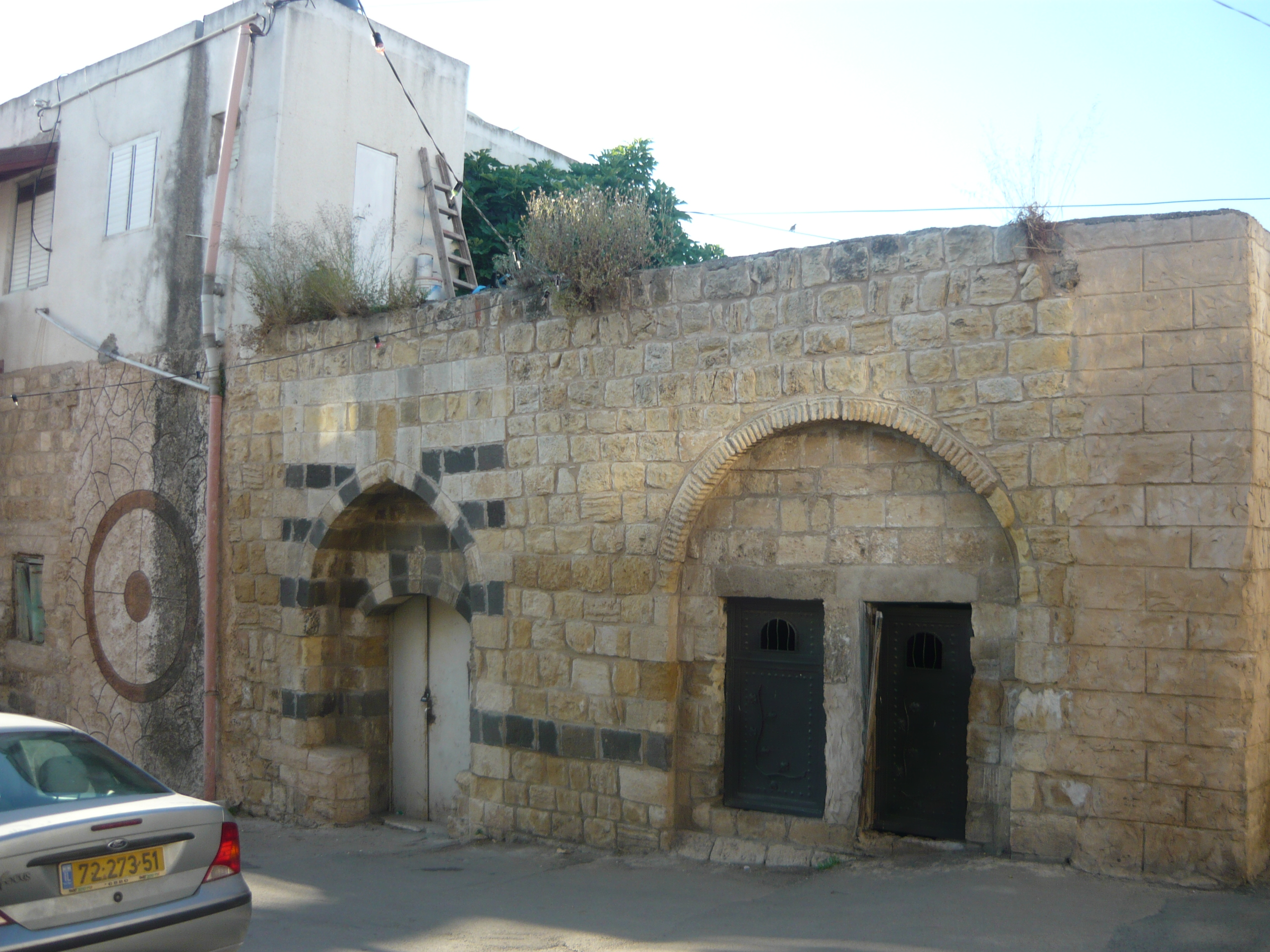 Omar El Zidani's house in Arrabe ביתו של עומר אל זידאני בעראבה - מבט כללי, כולל הבניין החדש הצמוד אליו